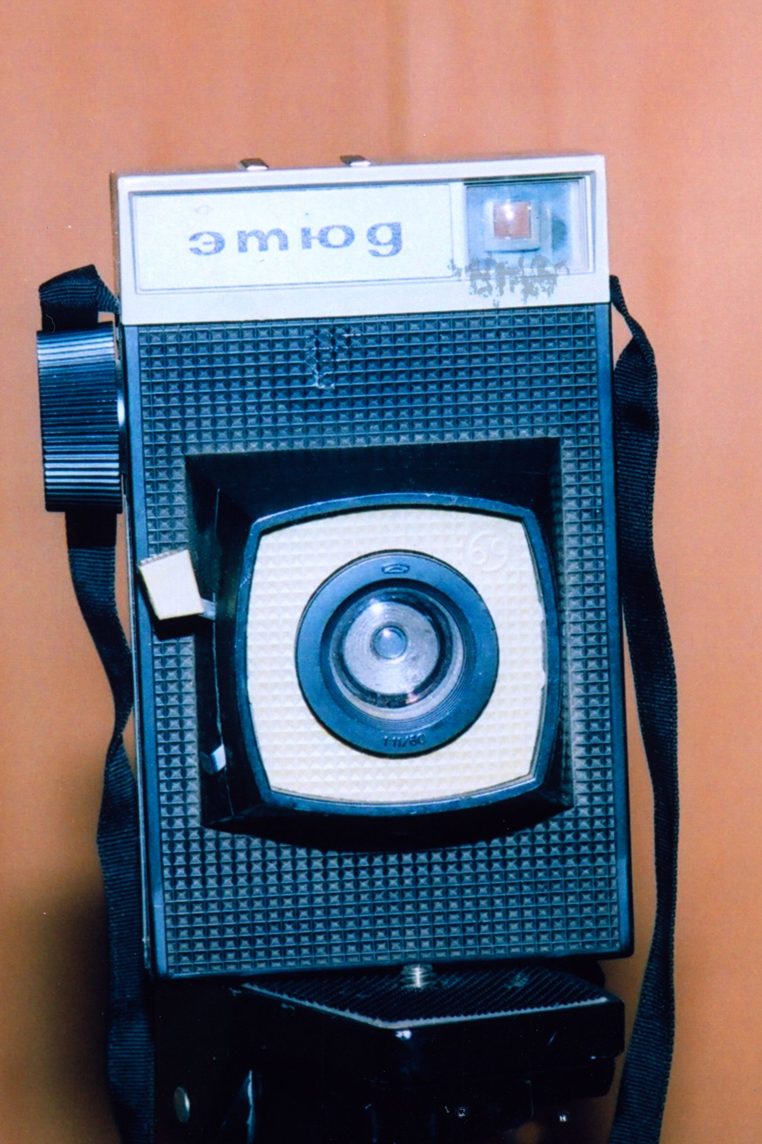 Etud (camera)